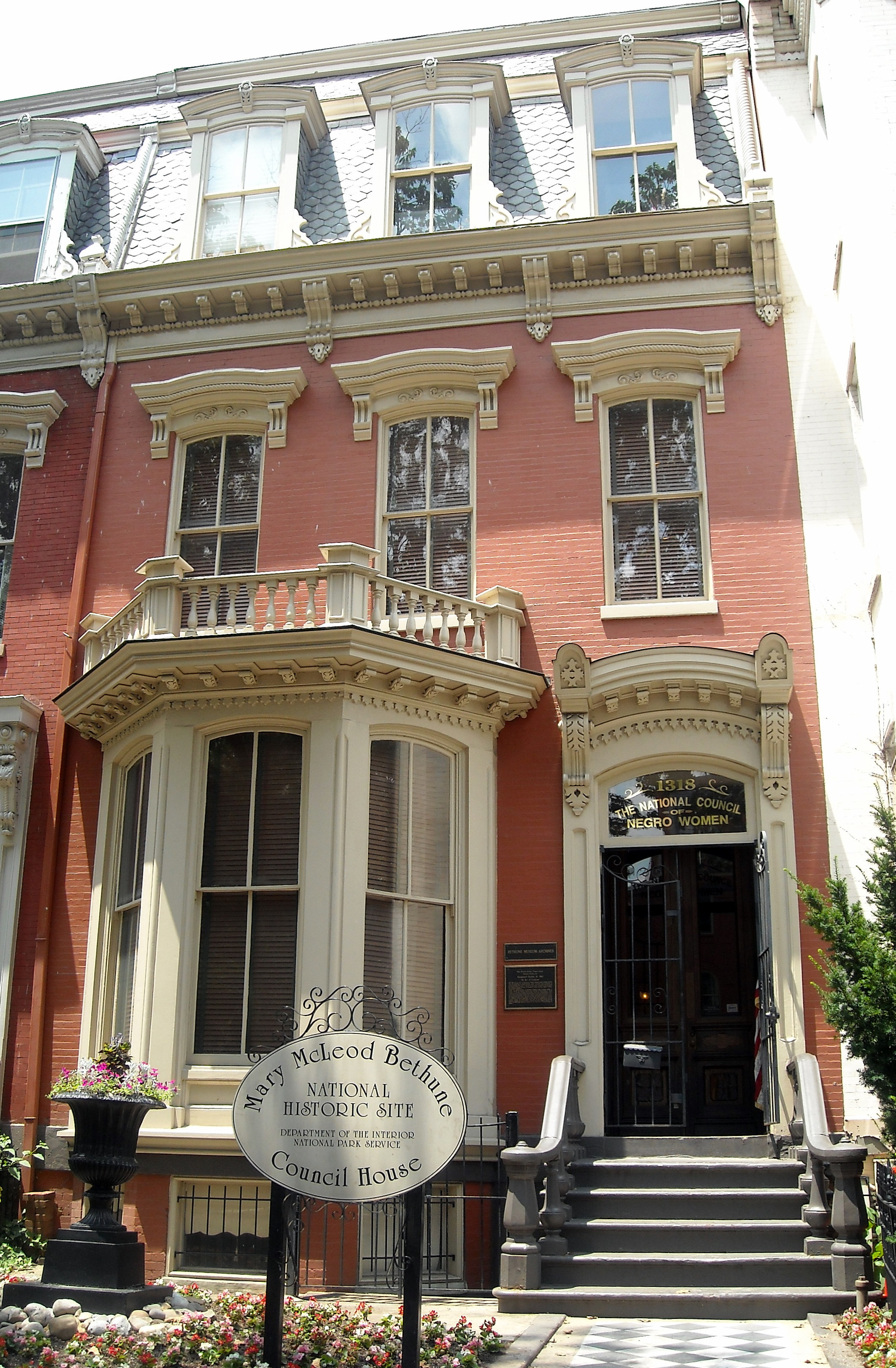 Mary McLeod Bethune Council Home at 1318 Vermont Avenue, NW in the Logan Circle neighborhood of Washington, D.C. The building is listed on the National Register of Historic Places.